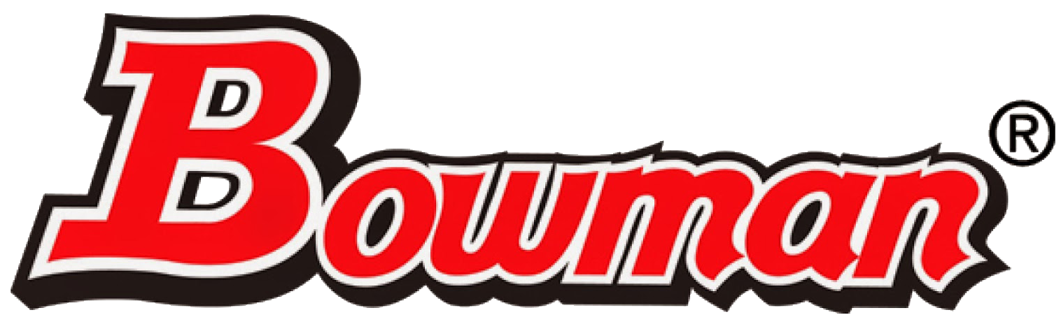 Logo of the Bowman brand, owned by Topps Company since 1956.